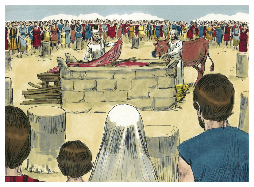 Biblical illustration of Book of Leviticus Chapter 1